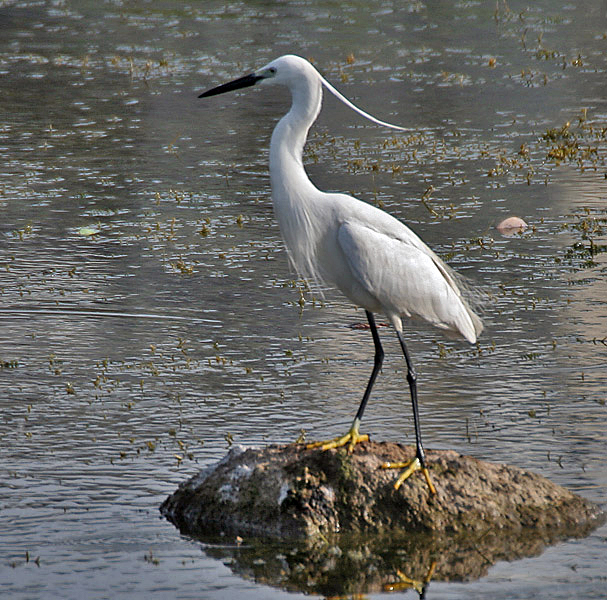 Little Egret Egretta garzetta in Hyderabad , India.